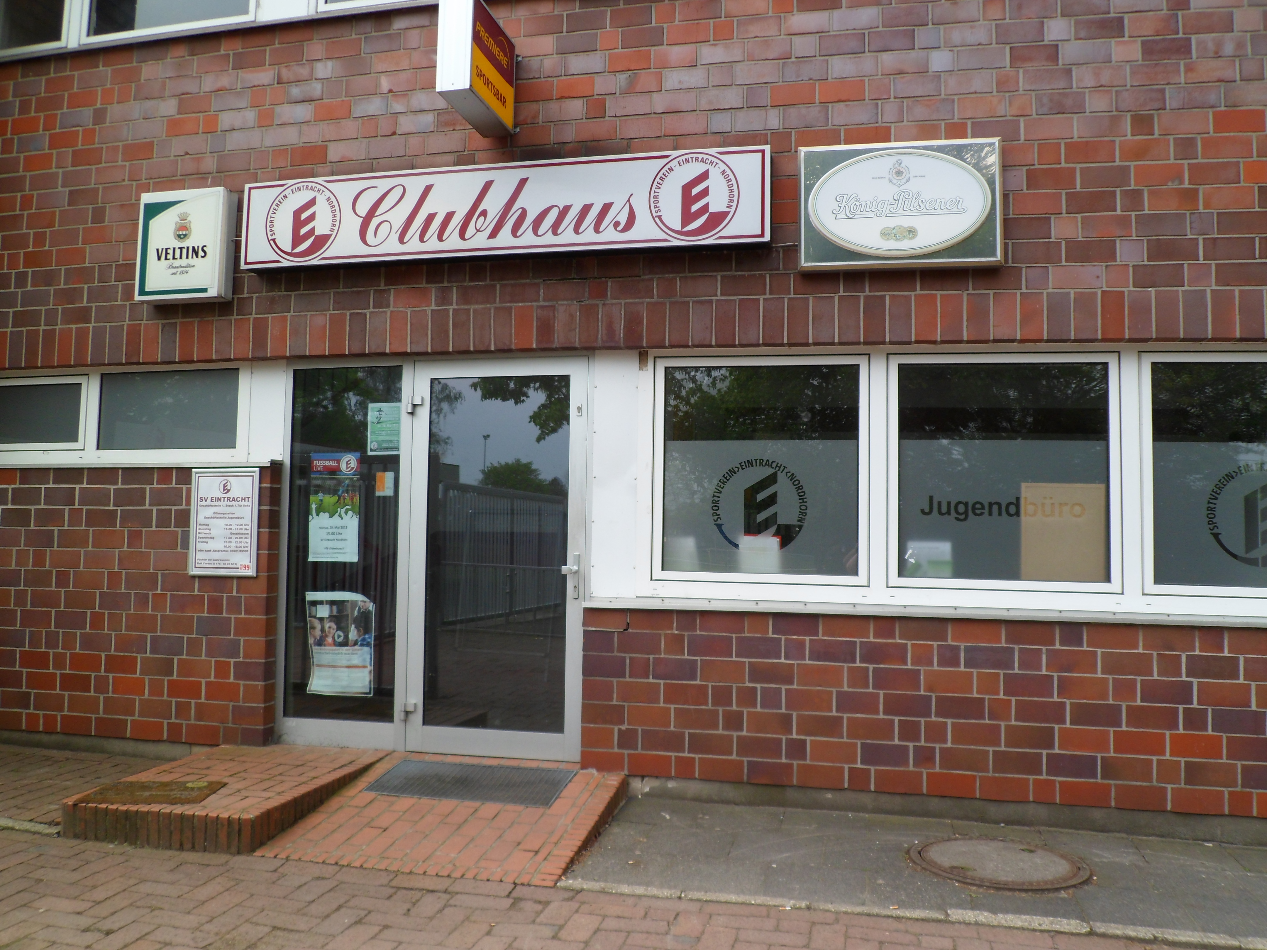 Nordhorn, Eintracht-Stadion